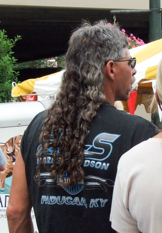 Photo of mullet hairstyle.